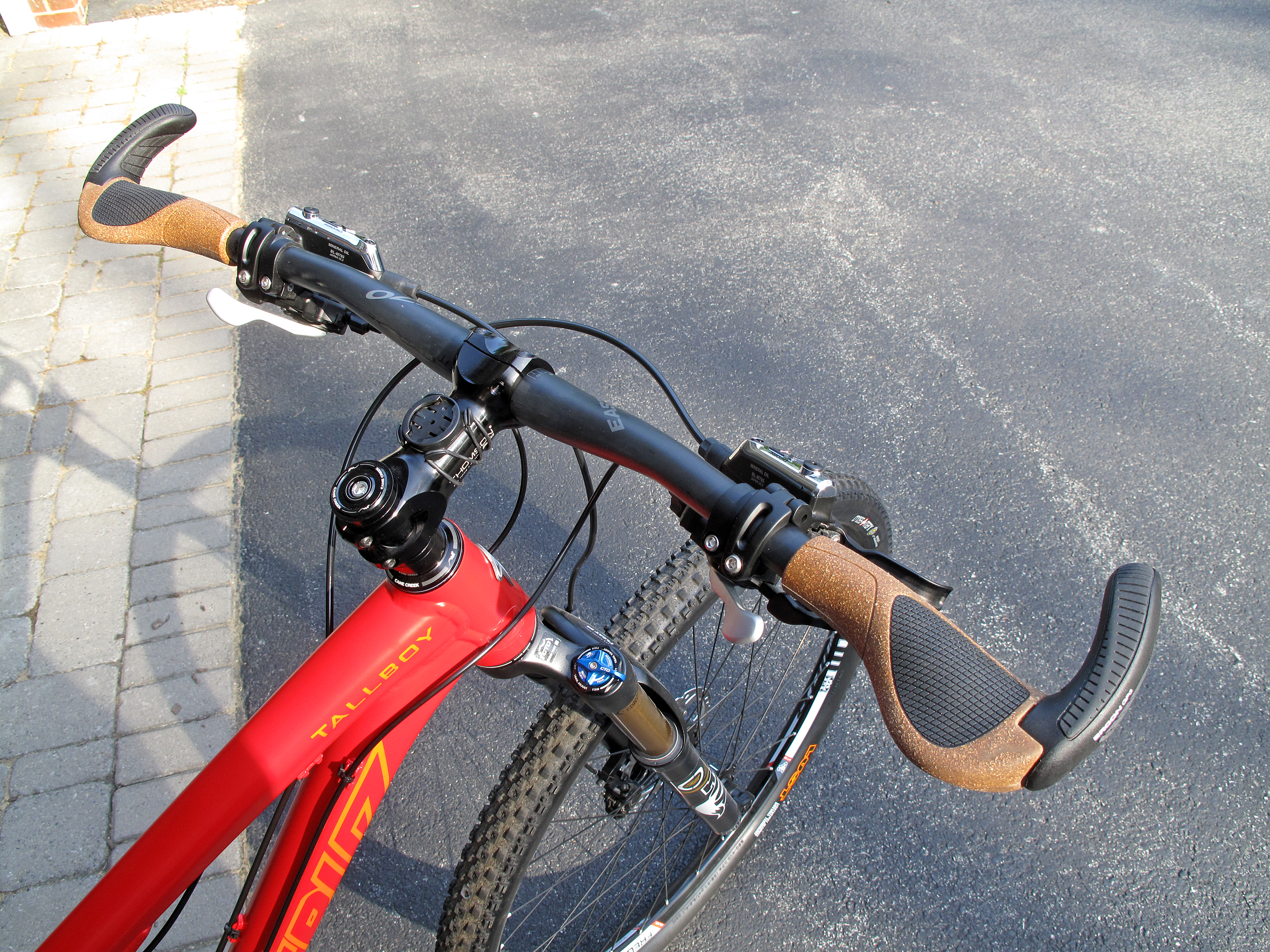 Handlebars of a a 2013 Santa Cruz Tallboy mountain bike, with ergonomic grips and bar ends.